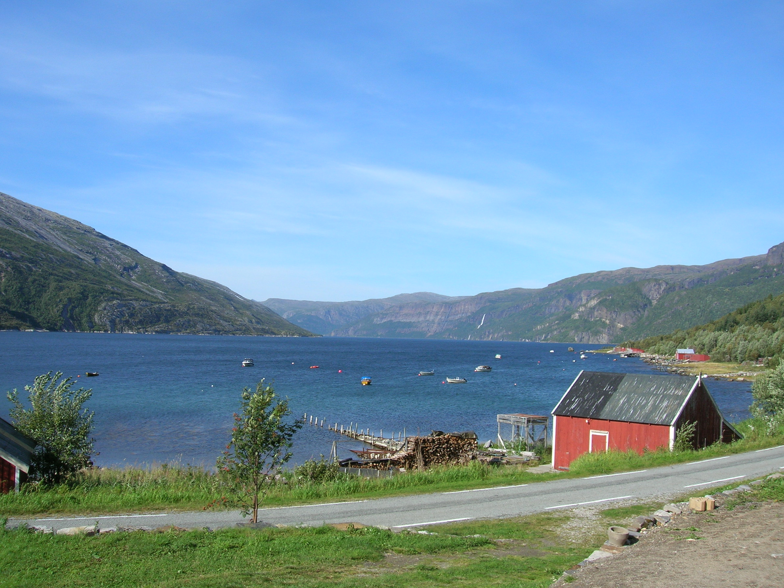 Melfjorden, seen from northeast in Rødøy municipality, in the county of Nordland, Norway, Photo 1 September, 2005 with a Nikon Coolpix 5600 5,1 Megapixel camera.